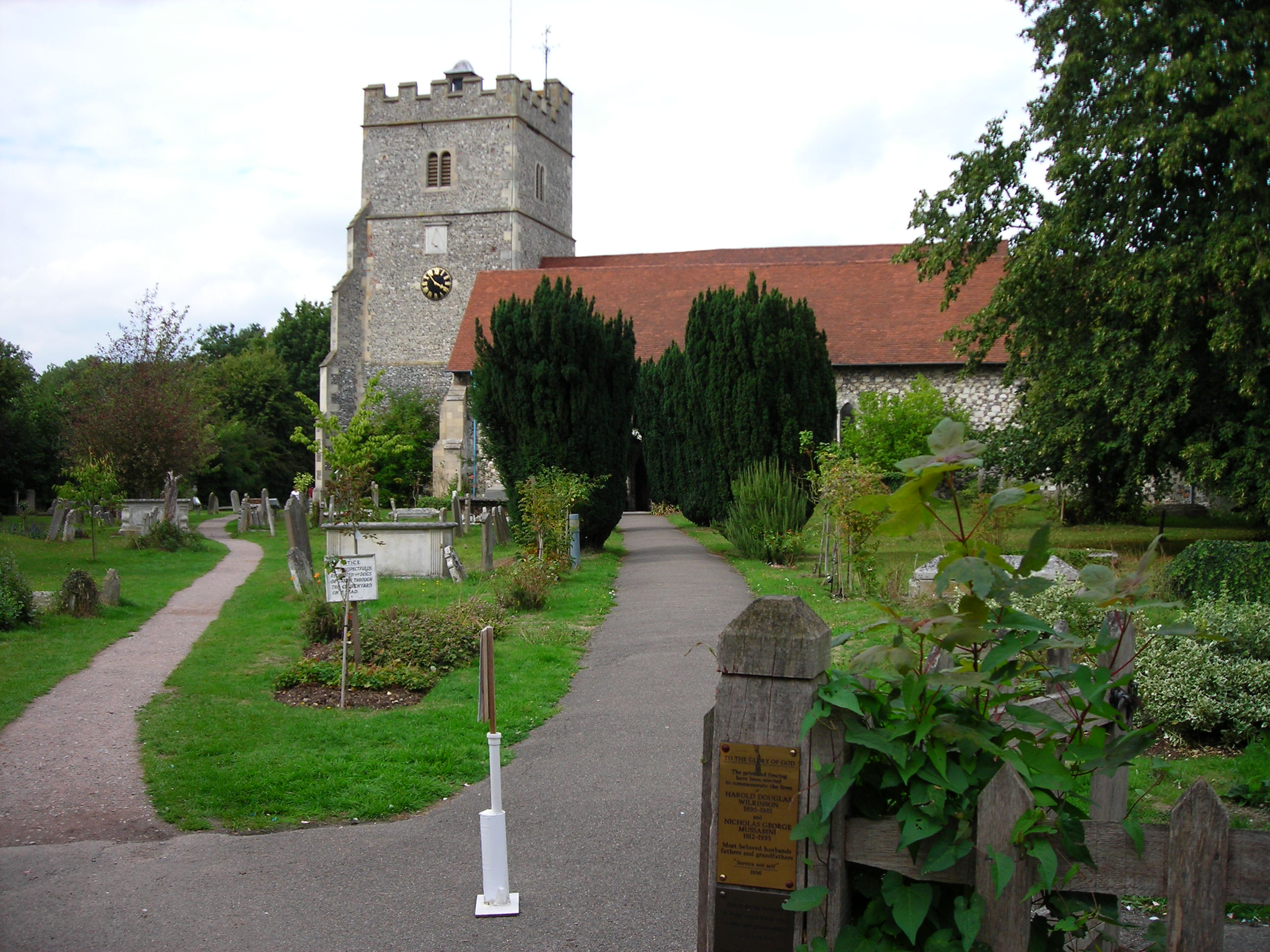 Church of England parish church of the Holy Trinity, Cookham, Berkshire: view from the south